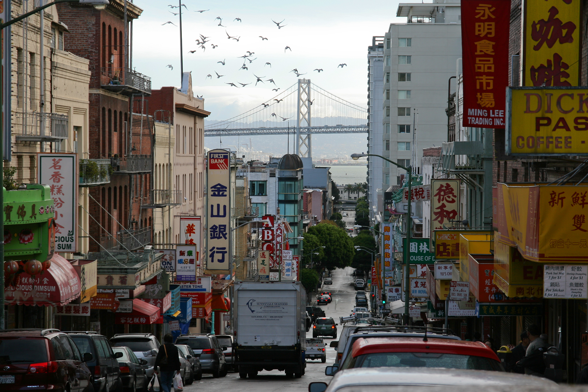 China Town in San Francisco, CA. In the background you can see the Bay Bridge.